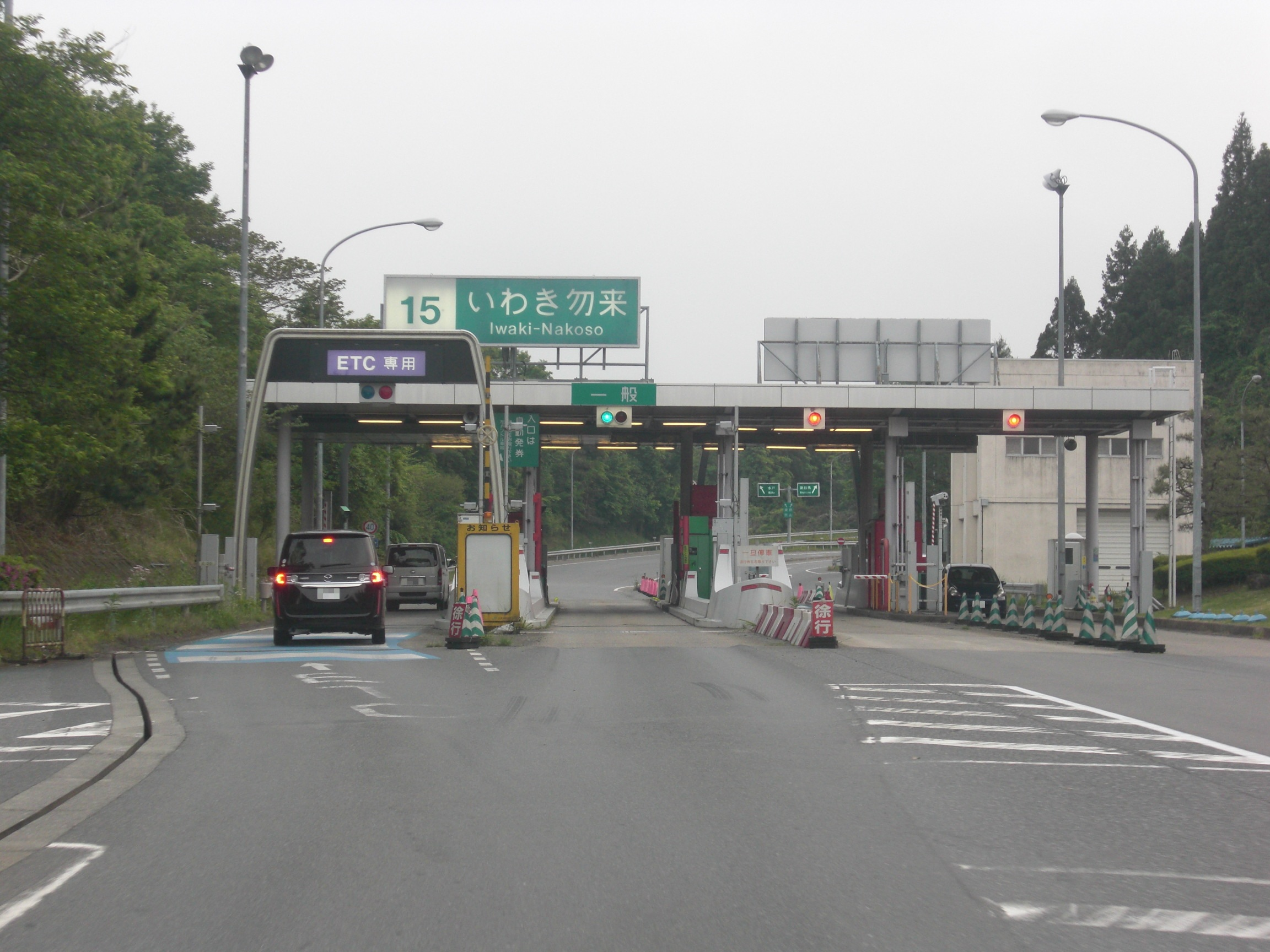 This is the Iwaki-Nakoso interchange of Joban Expressway in Iwaki, Fukushima, Japan.